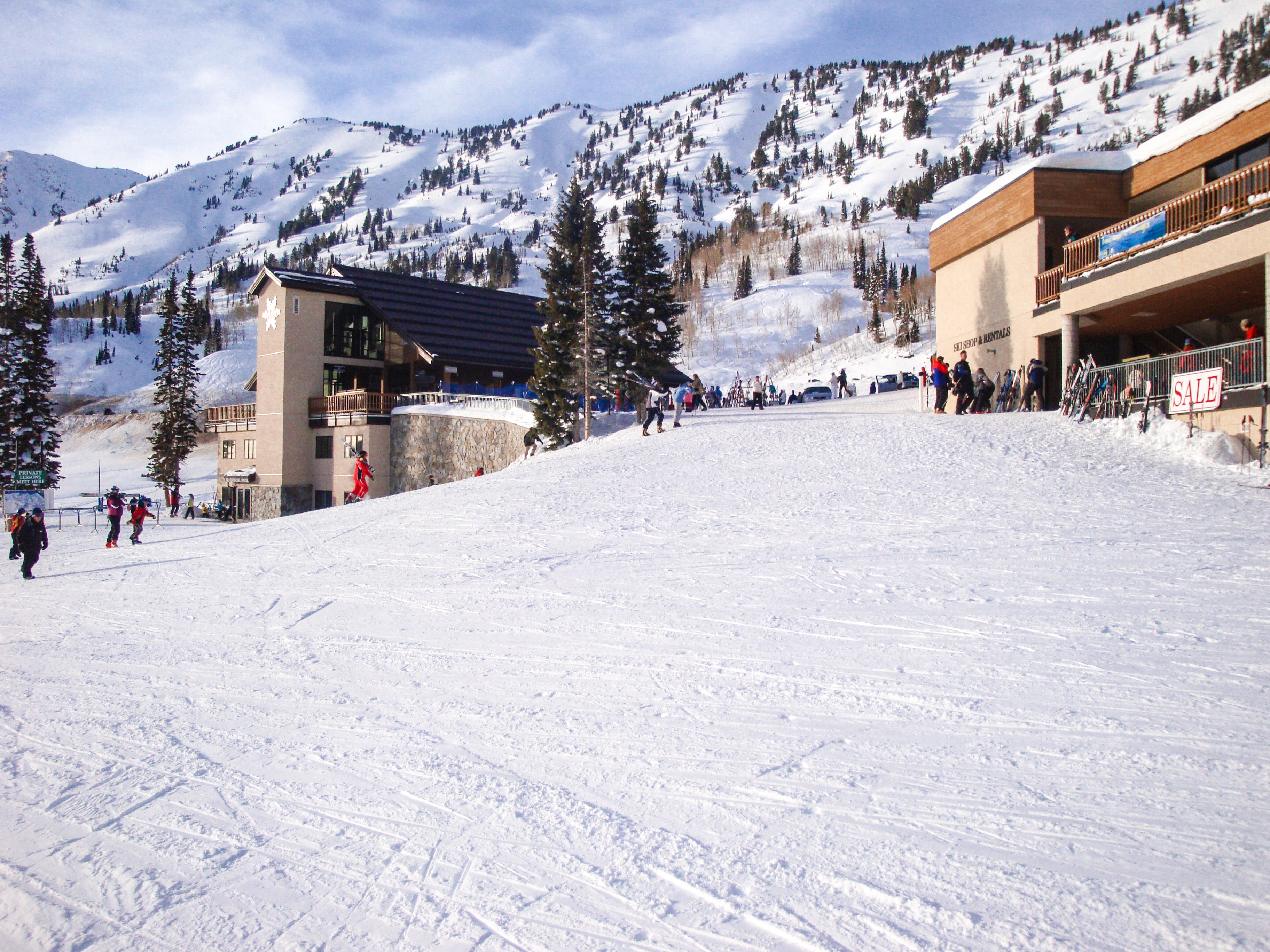 Albion Basin base at Alta ski resort.